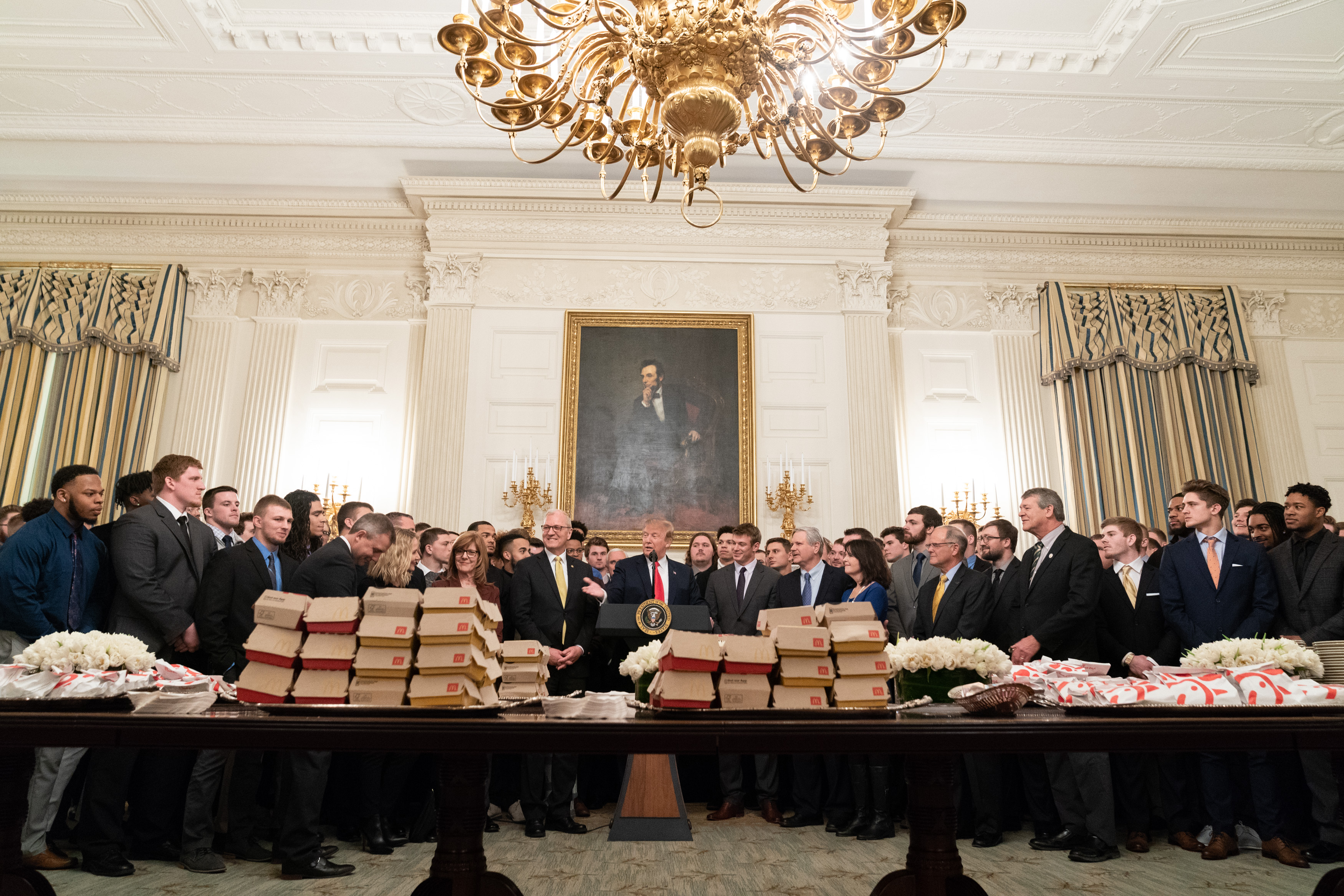 President Donald J. Trump welcomes the 2018 FCS Division I Football National Champions the North Dakota Bison Monday, March 4, 2019, to lunch in the State Dining Room of the White House. (Official White House Photo by Shealah Craighead)